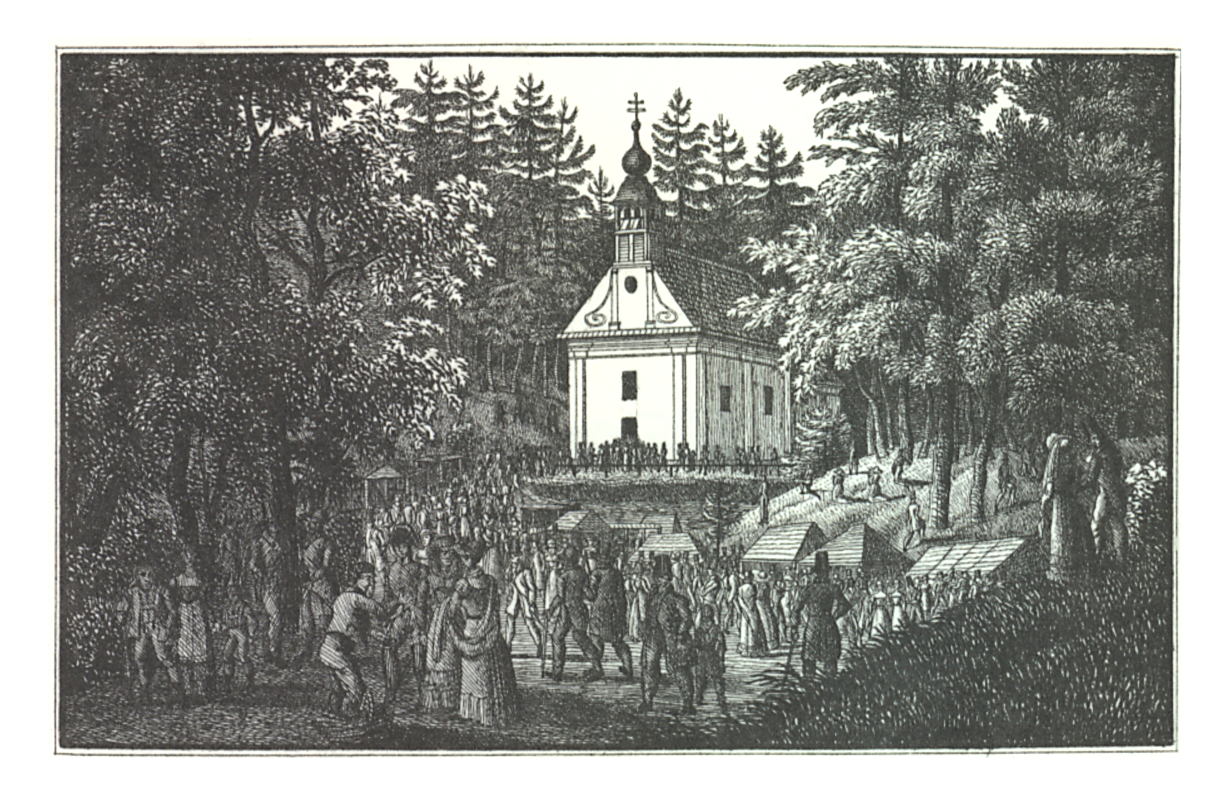 J. F. Kaiser - lithographirte Ansichten der Steyermärkischen Städte, Märkte und Schlösser, Graz 1824-1833 Joseph Franz Kaiser (1786–1859) Alternative names J. F. KaiserDescriptionAustrian printer and editorDate of birth/death 11 March 1786 19 September 1859Location of birth/death Graz (Styria) GrazAuthority control : Q1499963 VIAF: 30629353 ISNI: 0000 0000 3083 0153 LCCN: n87141671 GND: 129880159 NLP: A24960305 WorldCat creator QS:P170,Q1499963 . Scanprojekt Community Projektbudget 2012 This scan or this PDF-file was created within the GLAM-project Bookscanning, supported by Wikimedia Germany and Wikimedia Austria as a part of the community-project to capture books, documents and pictures which are not eligible to copyright or for which the copyright has expired. This document describes or depicts an object which is located in Austria today. Send requests for uncompressed scans to Hubertl. This work is in the public domain in its country of origin and other countries and areas where the copyright term is the author's life plus 100 years or less. You must also include a United States public domain tag to indicate why this work is in the public domain in the United States. This file has been identified as being free of known restrictions under copyright law, including all related and neighboring rights.